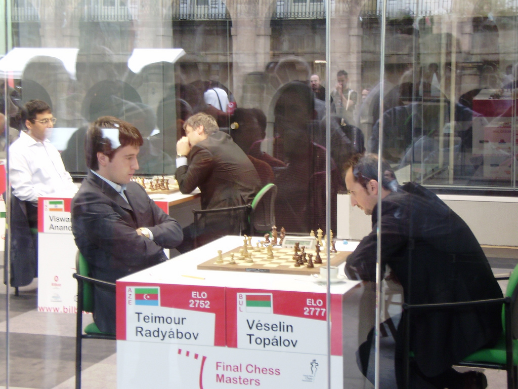 Teimour Radjabov and Veselin Topalov in Bilbao, 2 September 2008.